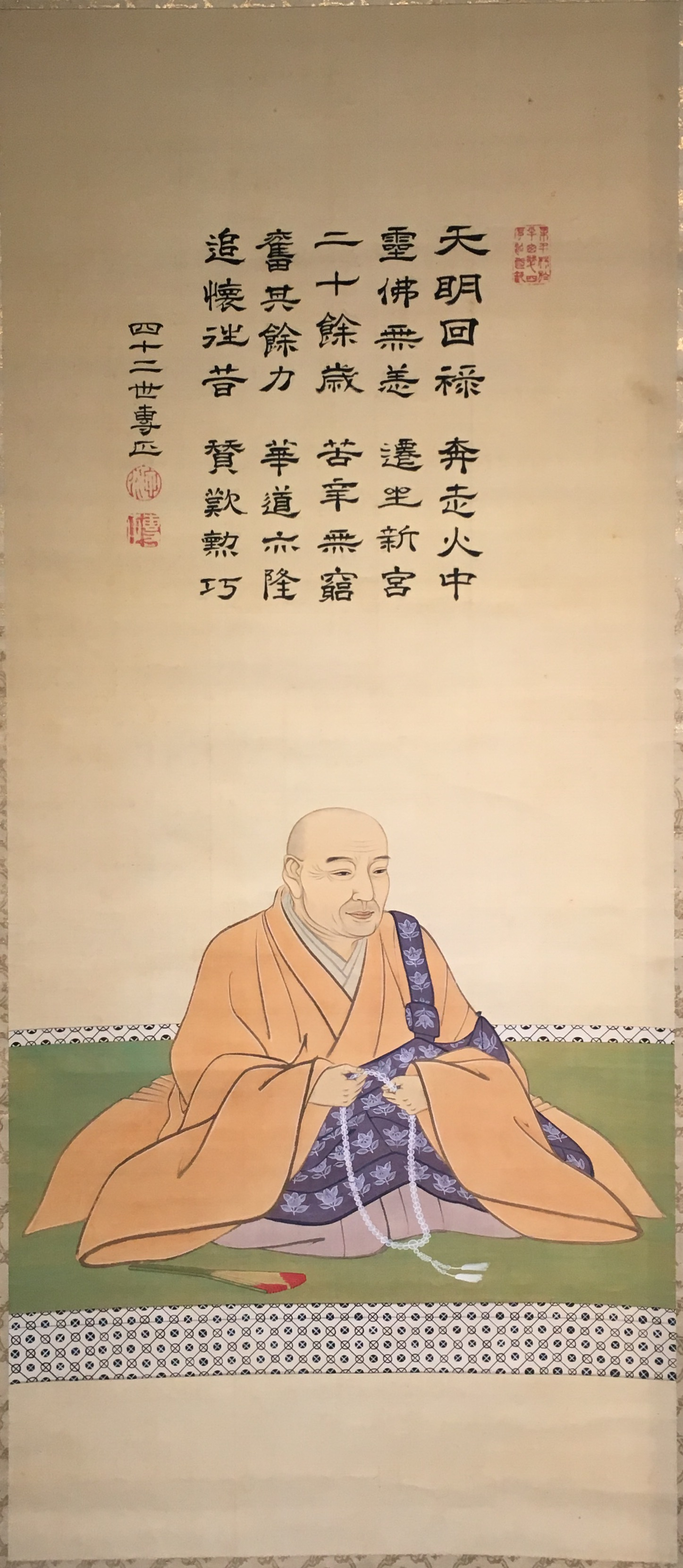 Hanging scroll depicting Ikenobō Senjō